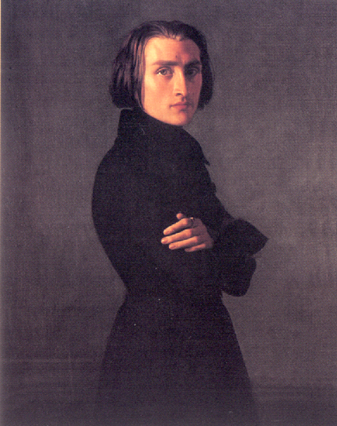 Portrait of the young Franz Liszt (1811-1886)